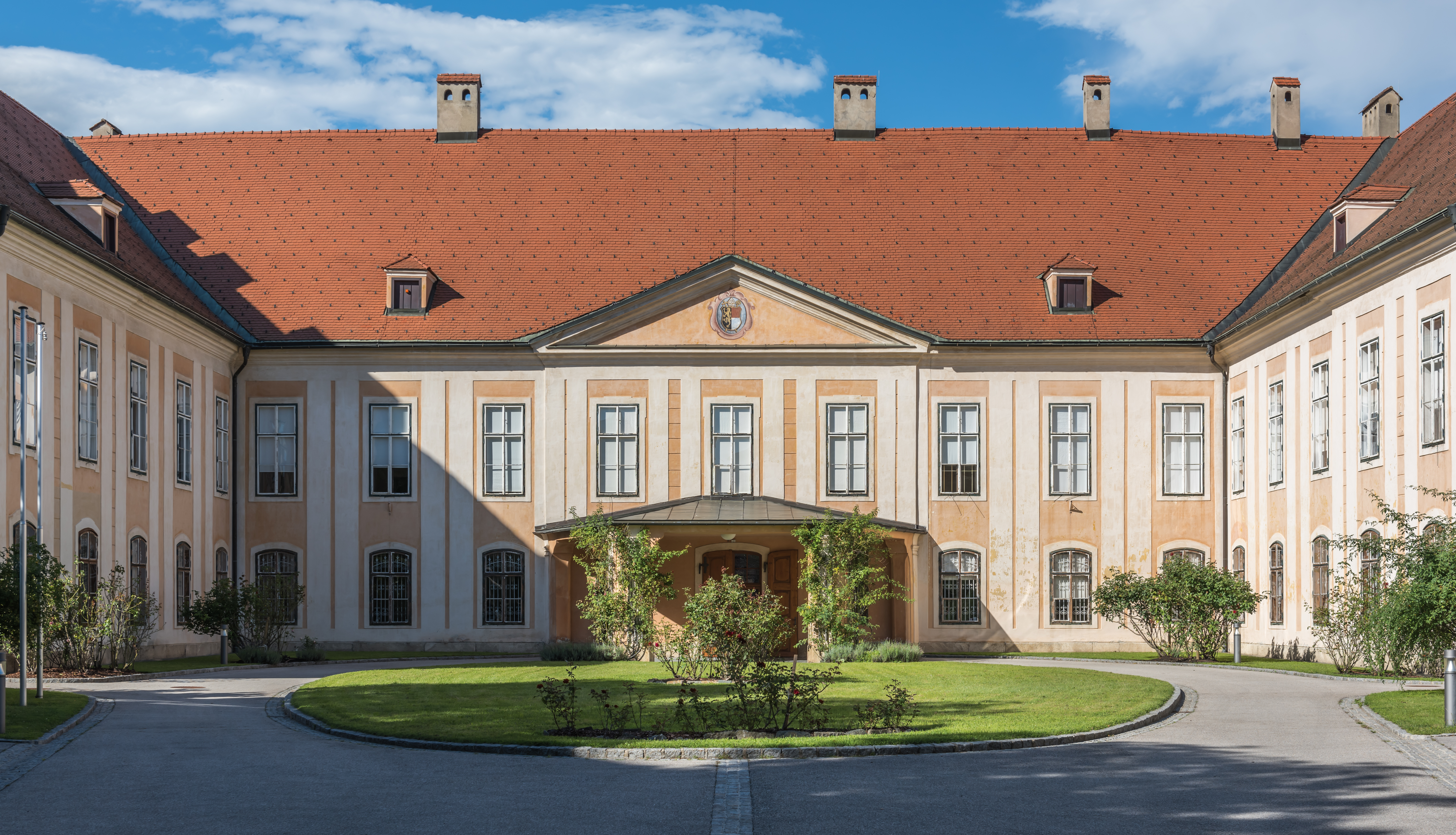 Episcopal residence, built from 1769 to 1776 after plans by the Vienna master builder Nikolaus von Pacassi, Mariannengasse #2, 6th district “Voelkermarkter Vorstadt”, municipality Klagenfurt on the Lake Woerth, Carinthia, Austria, EU